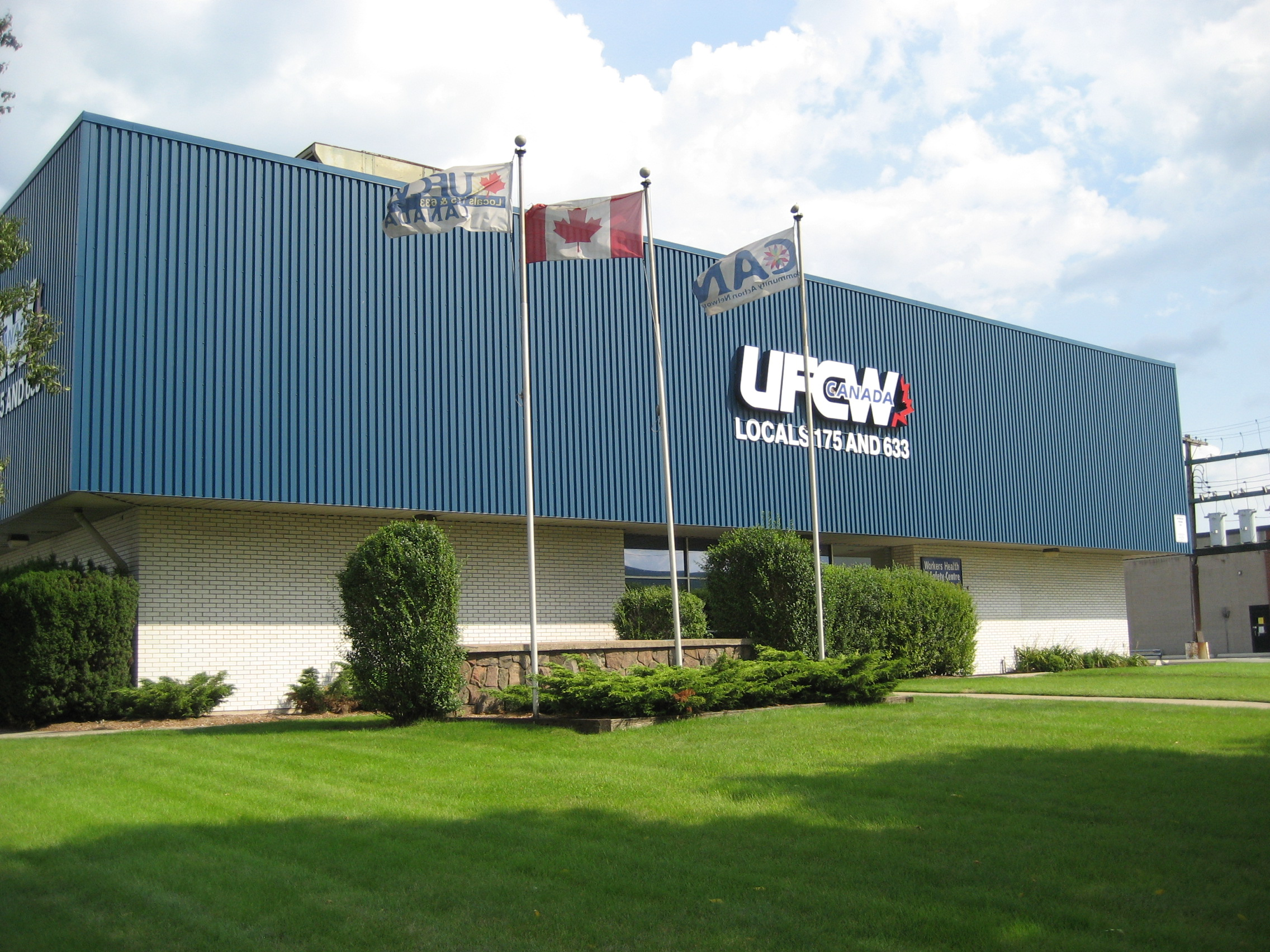 UFCW Canada building, Parkdale Avenue North, Hamilton, Canada.